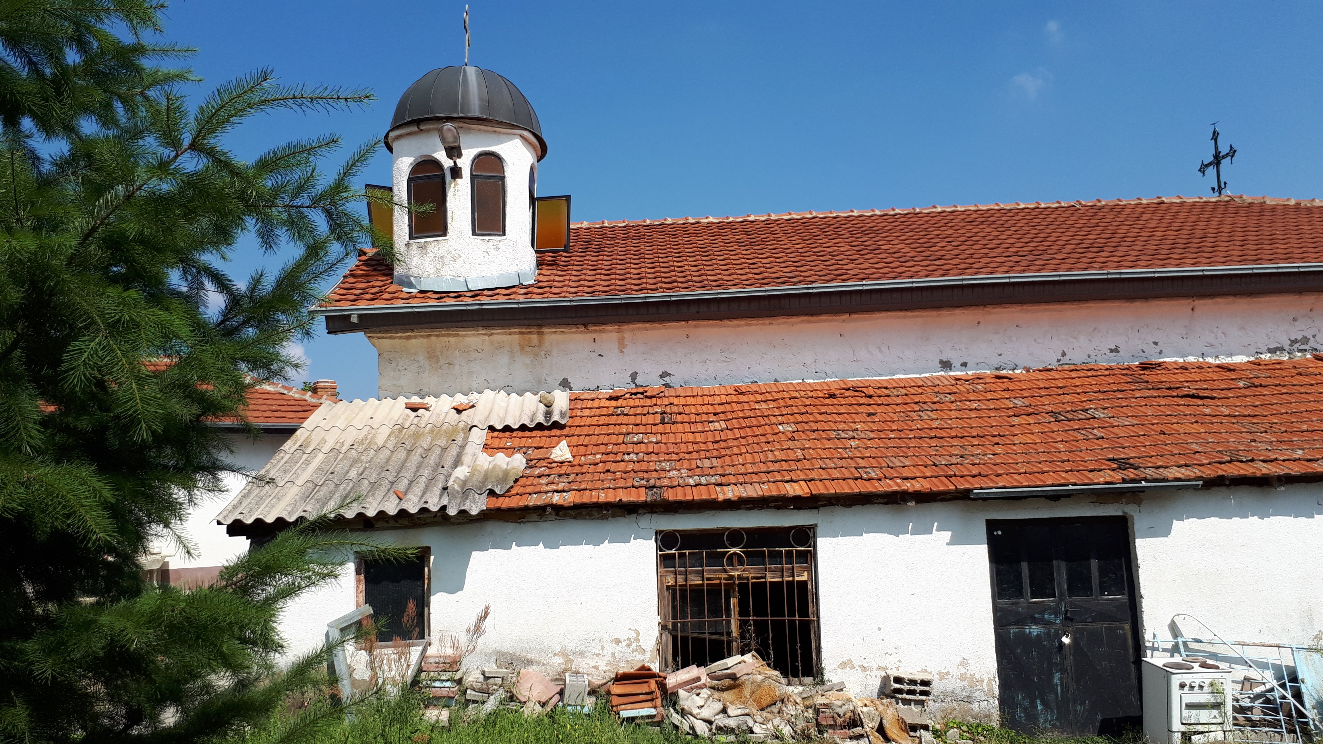 View of the Saints Peter and Paul Church in the village Krstoar